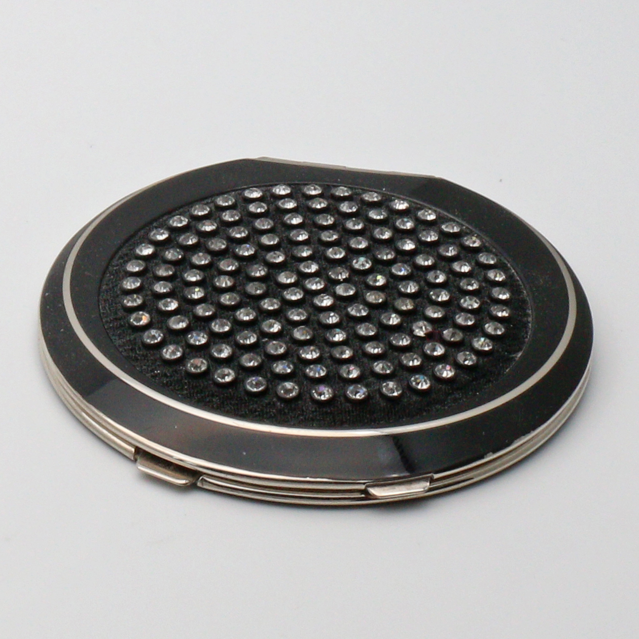 Art Deco black enamelled powder compact by Rowenta. 1930s. Marked Rowenta Foreign. Reg 798372